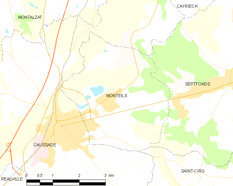 Map of French municipality Monteils